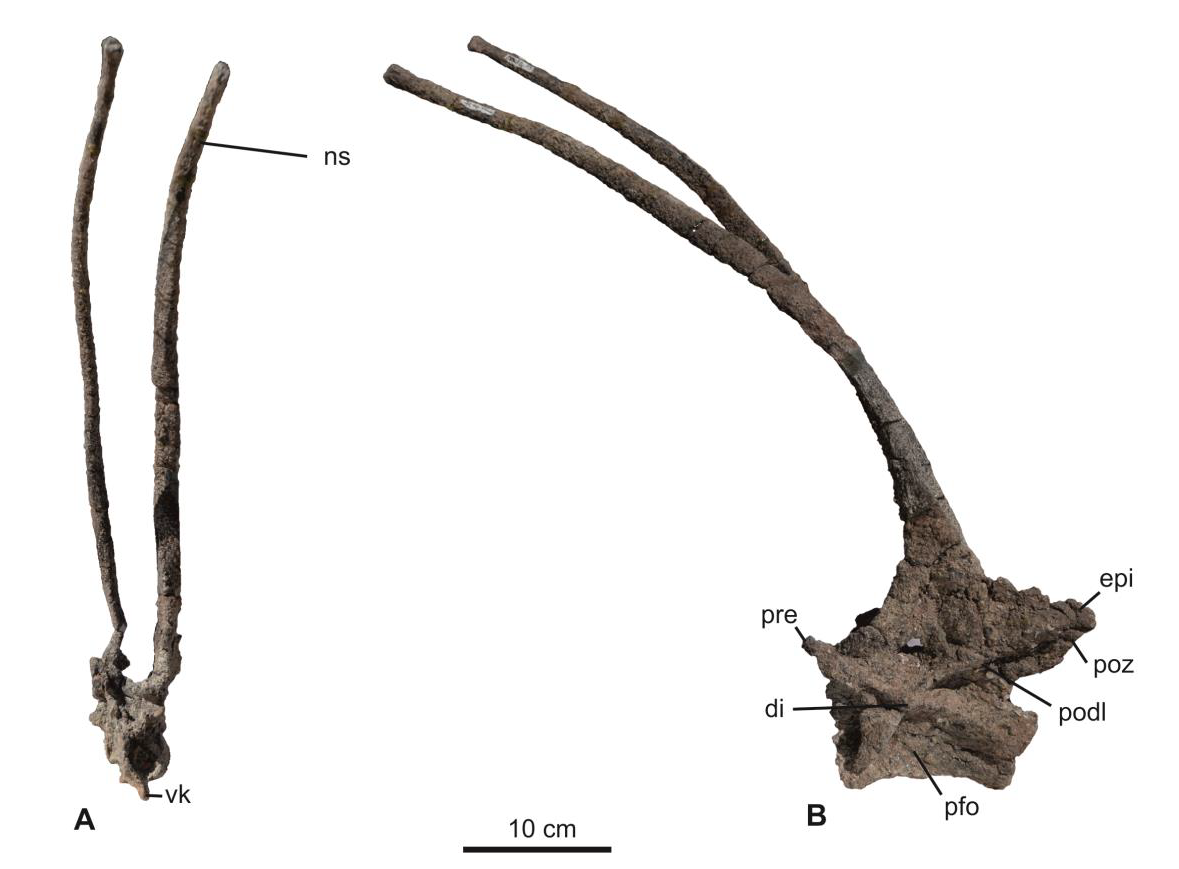 ?Fifth cervical vertebra of Bajadasaurus pronuspinax gen. et sp. nov. (MMCh-PV 75). Posterior (A) and lateral (B) views.